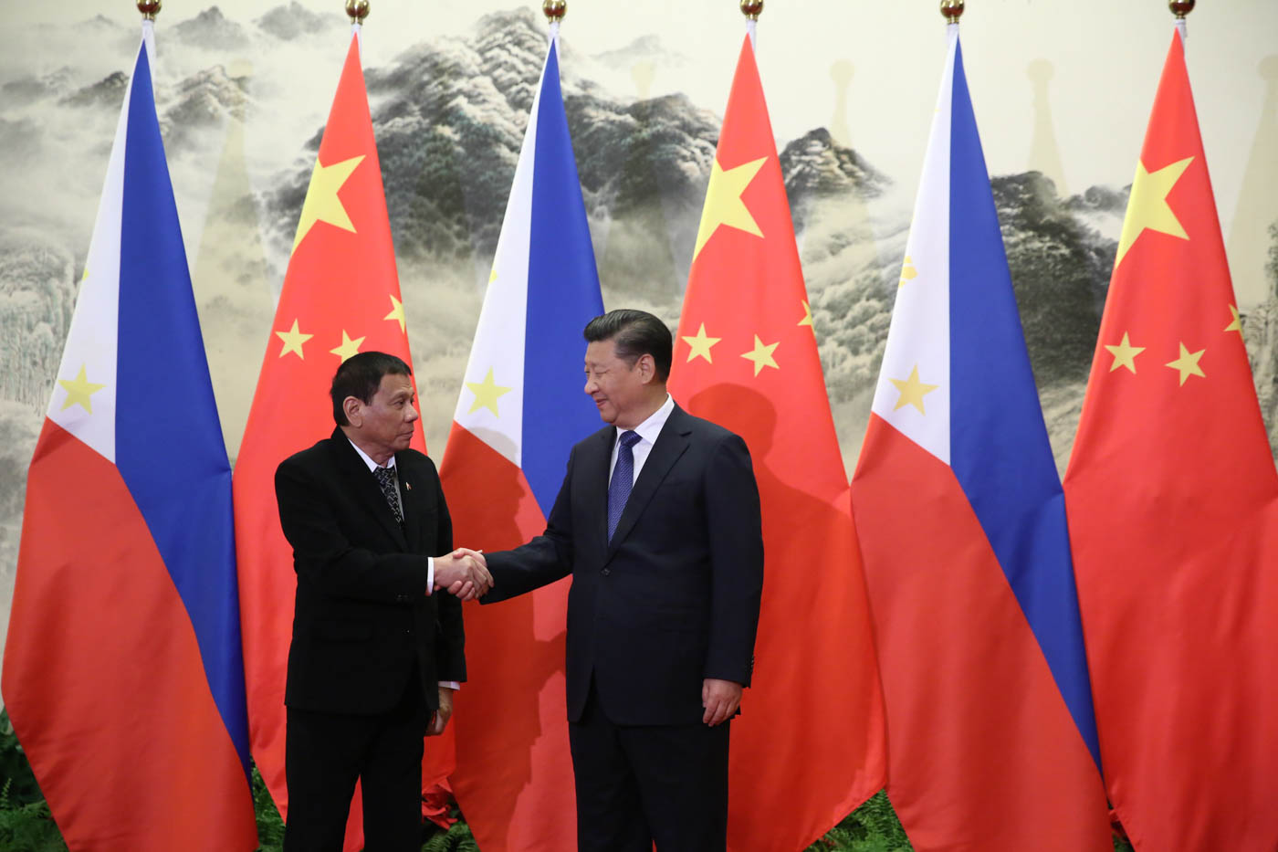 President Rodrigo Duterte and President Xi Jinping shake hands prior to their bilateral meetings at the Great Hall of the People in Beijing on October 20.